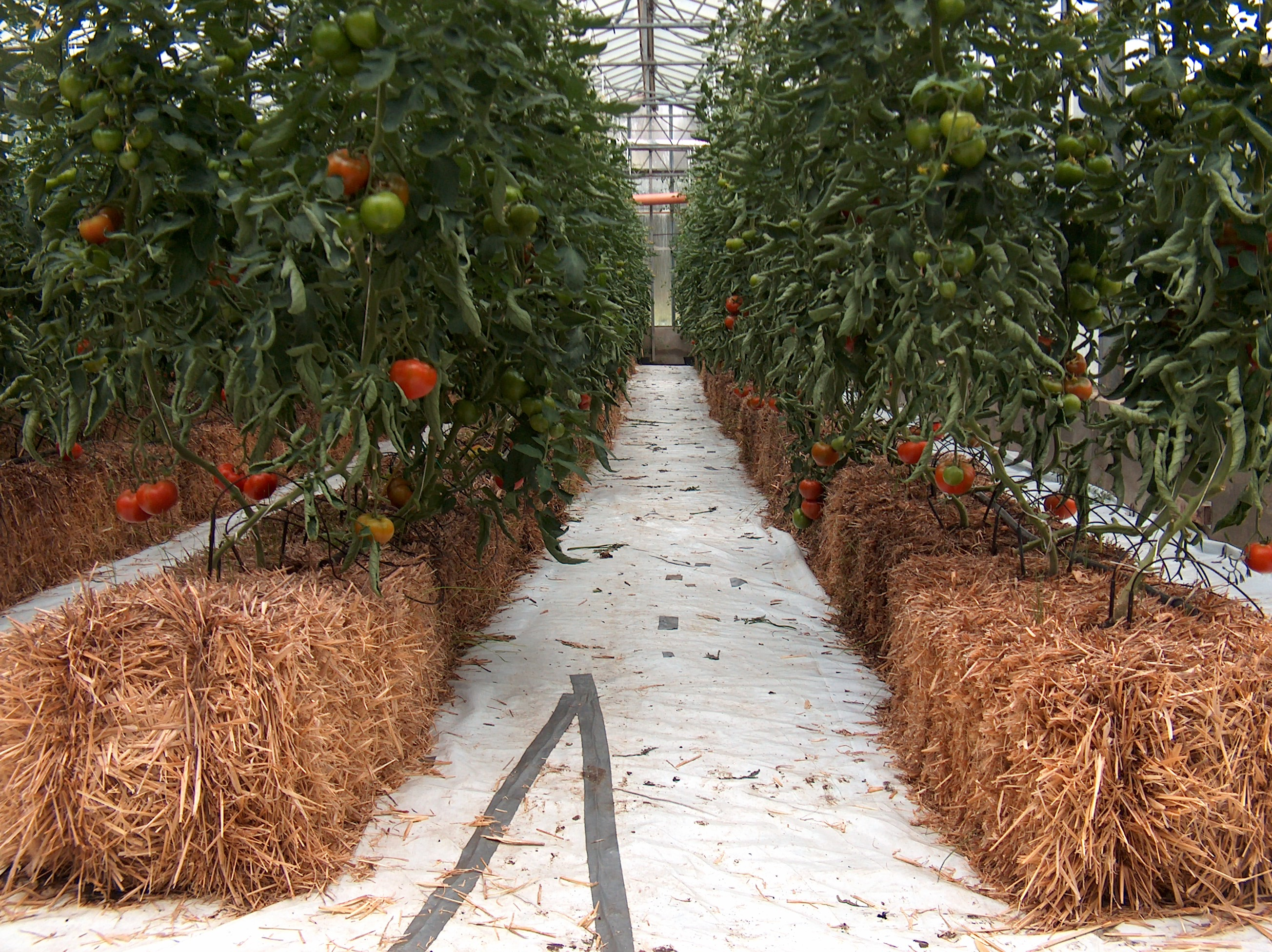 Tomatoes Black magigno hybrid growth by hydroponic on straw bales (from Professional Institute of Agriculture and Environment "Cettolini" Villacidro, Italy)